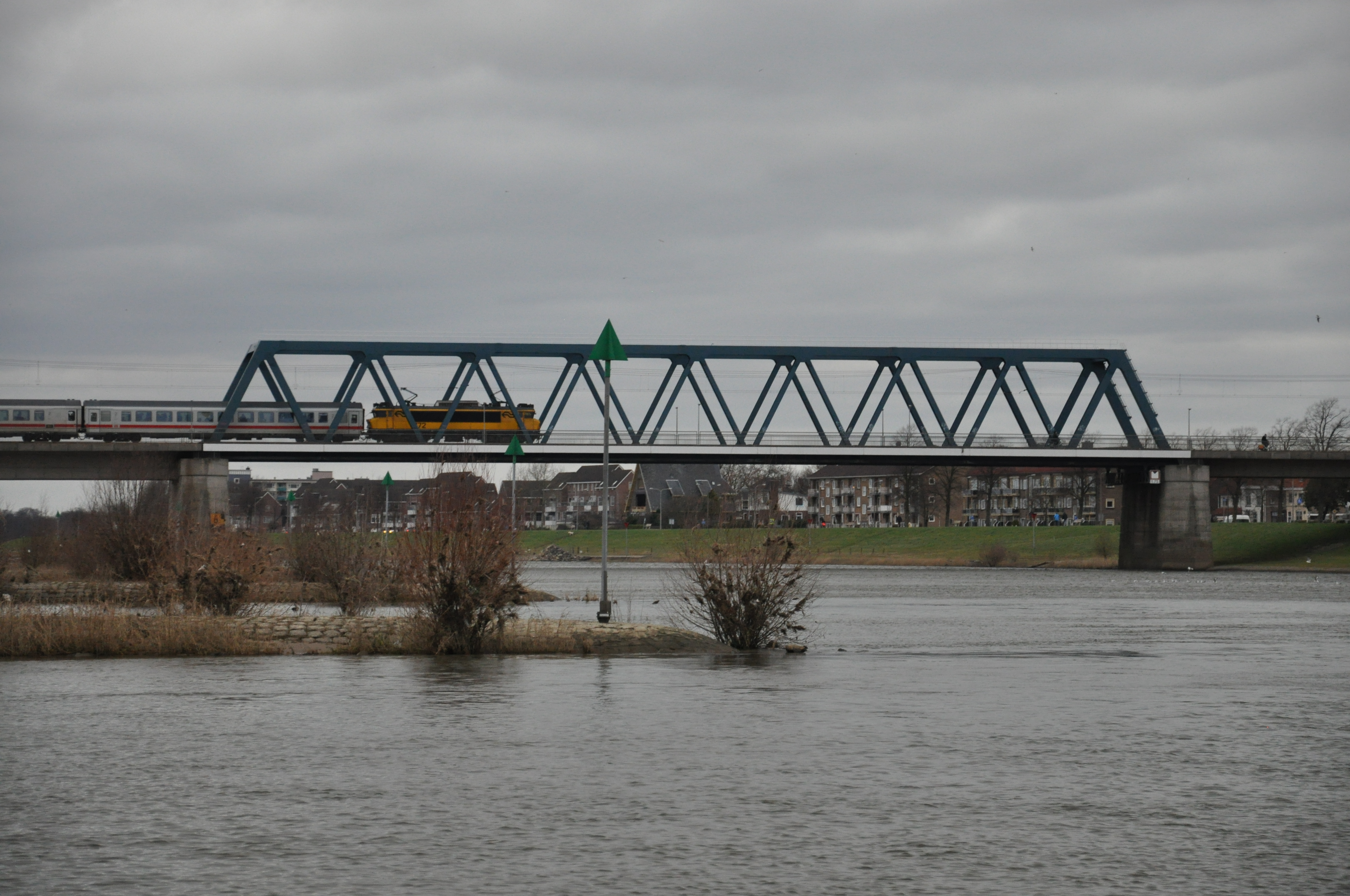 Trainbridge at Deventer